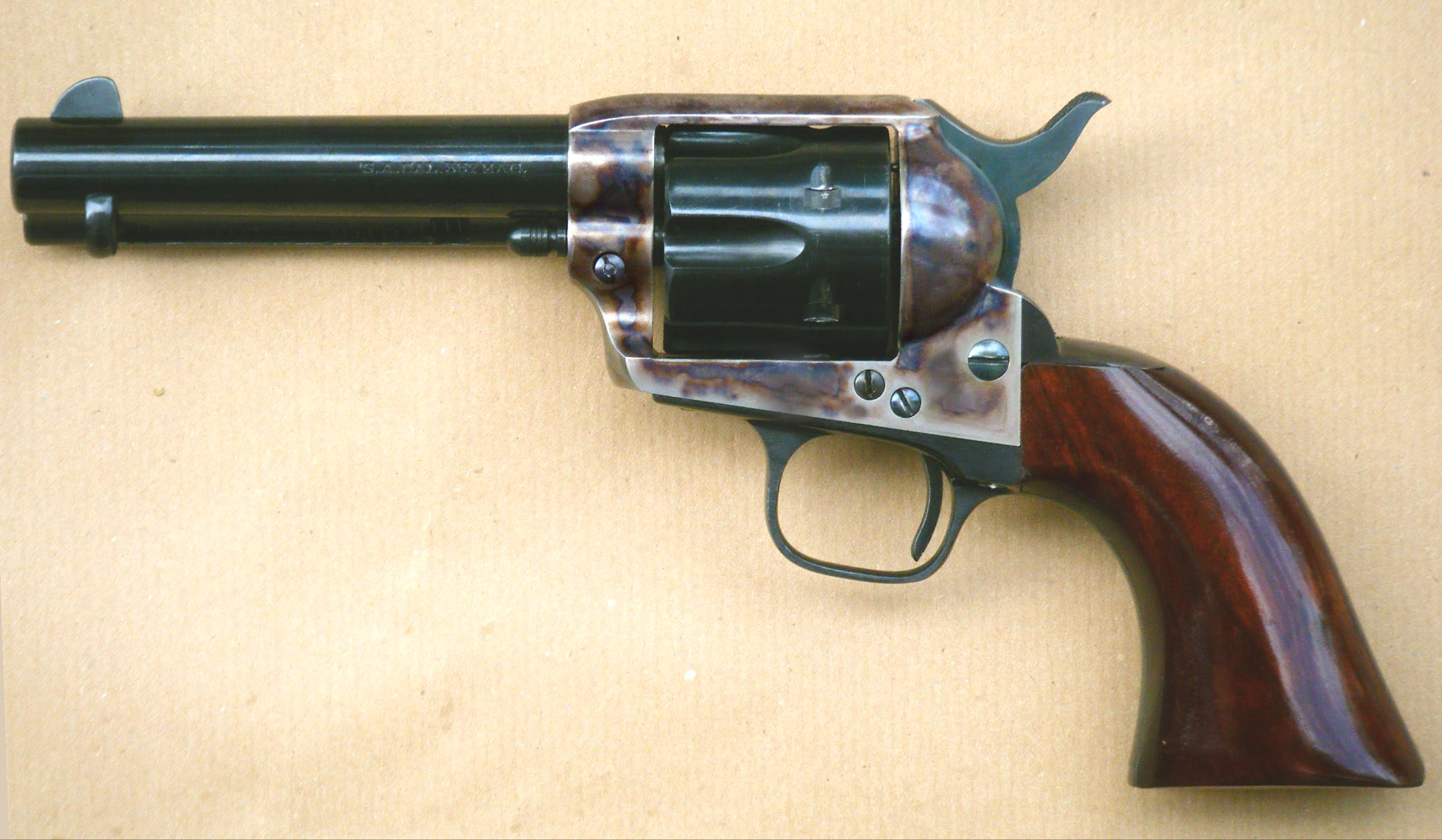 Copy of Colt S.A.A. standard (A. Uberti made)